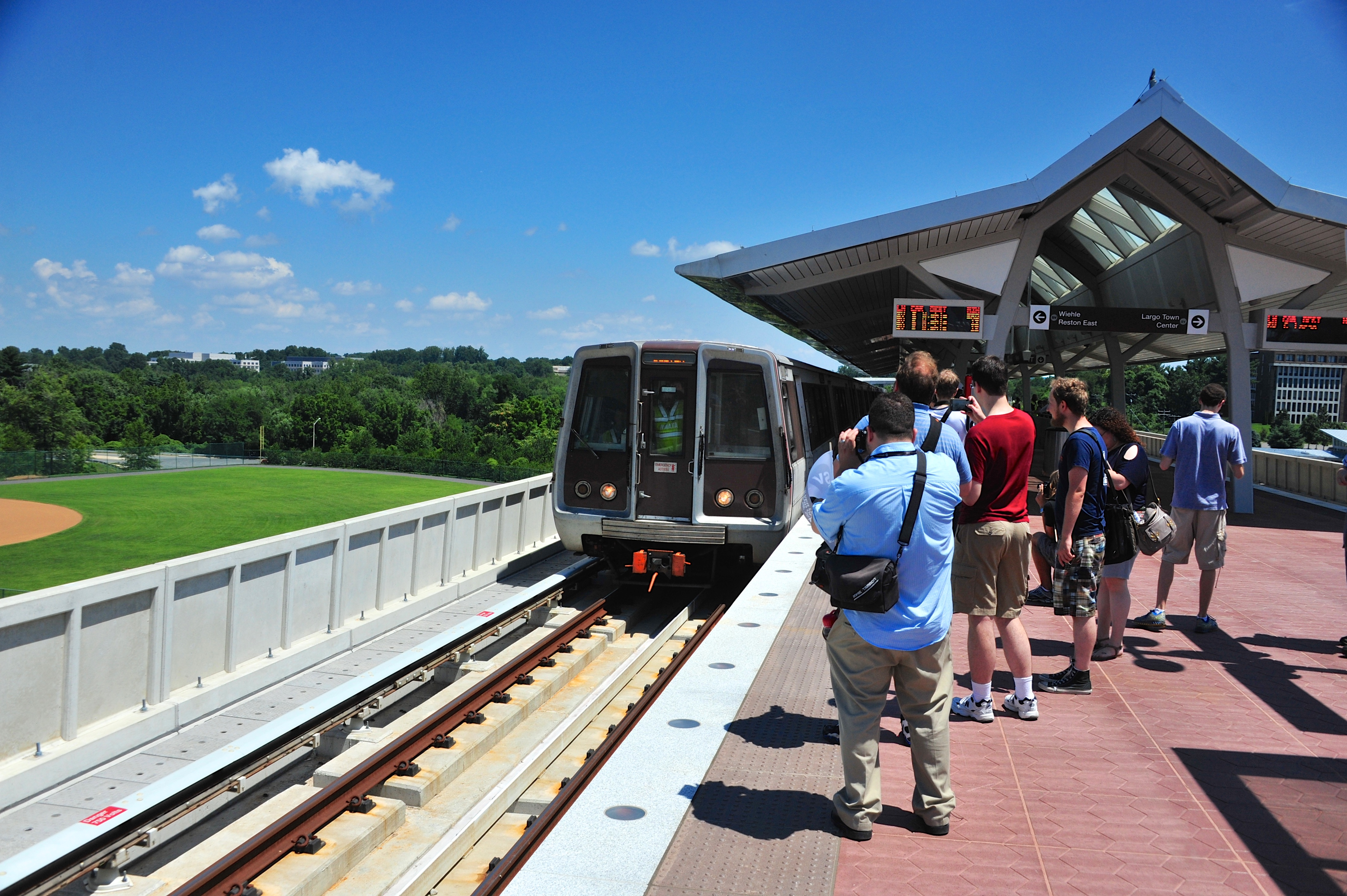 Train pulling into McLean, Virginia, USA.